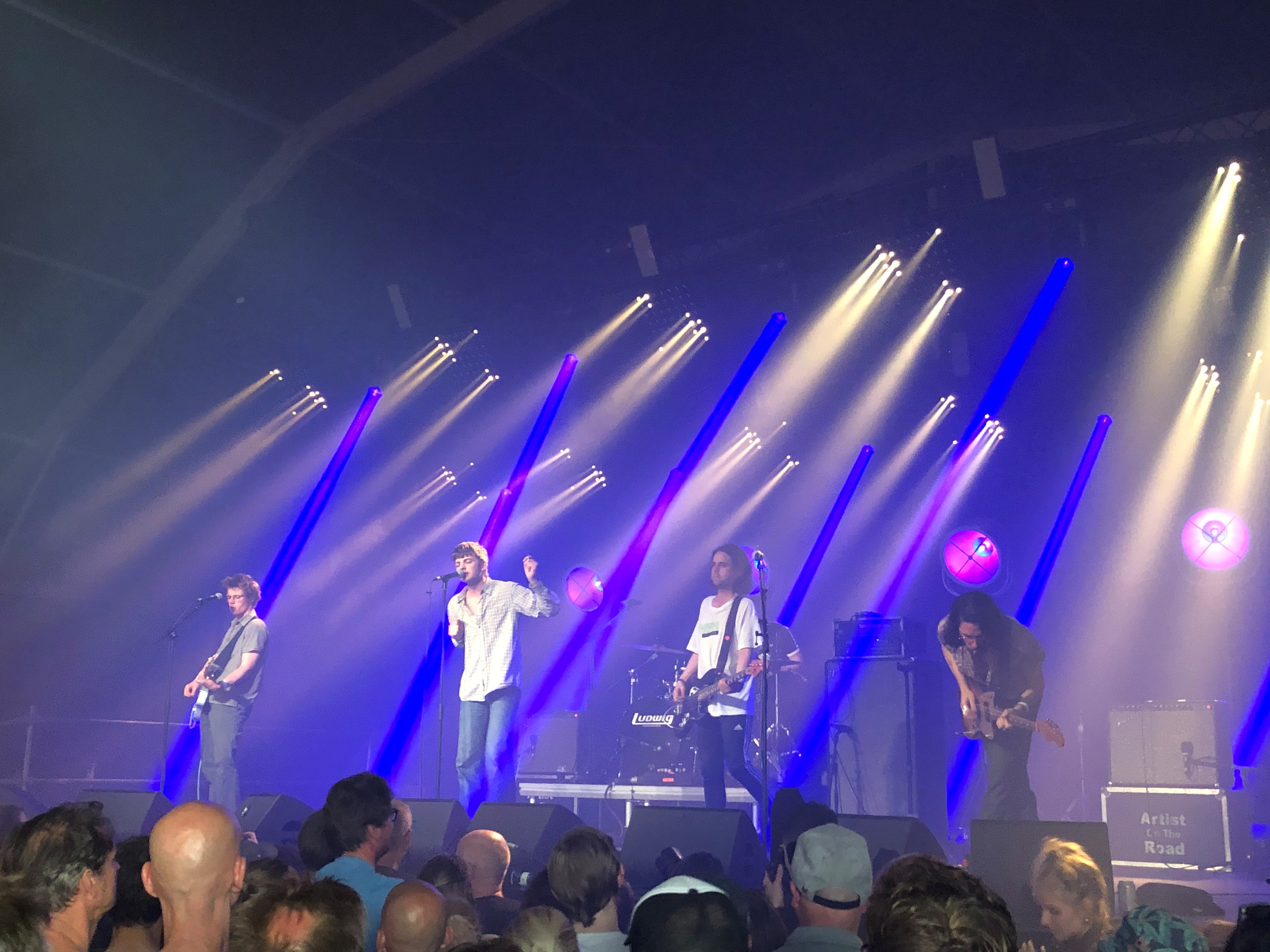 Fontaines DC playing the Loose Ends festival in Amsterdam in June 2019